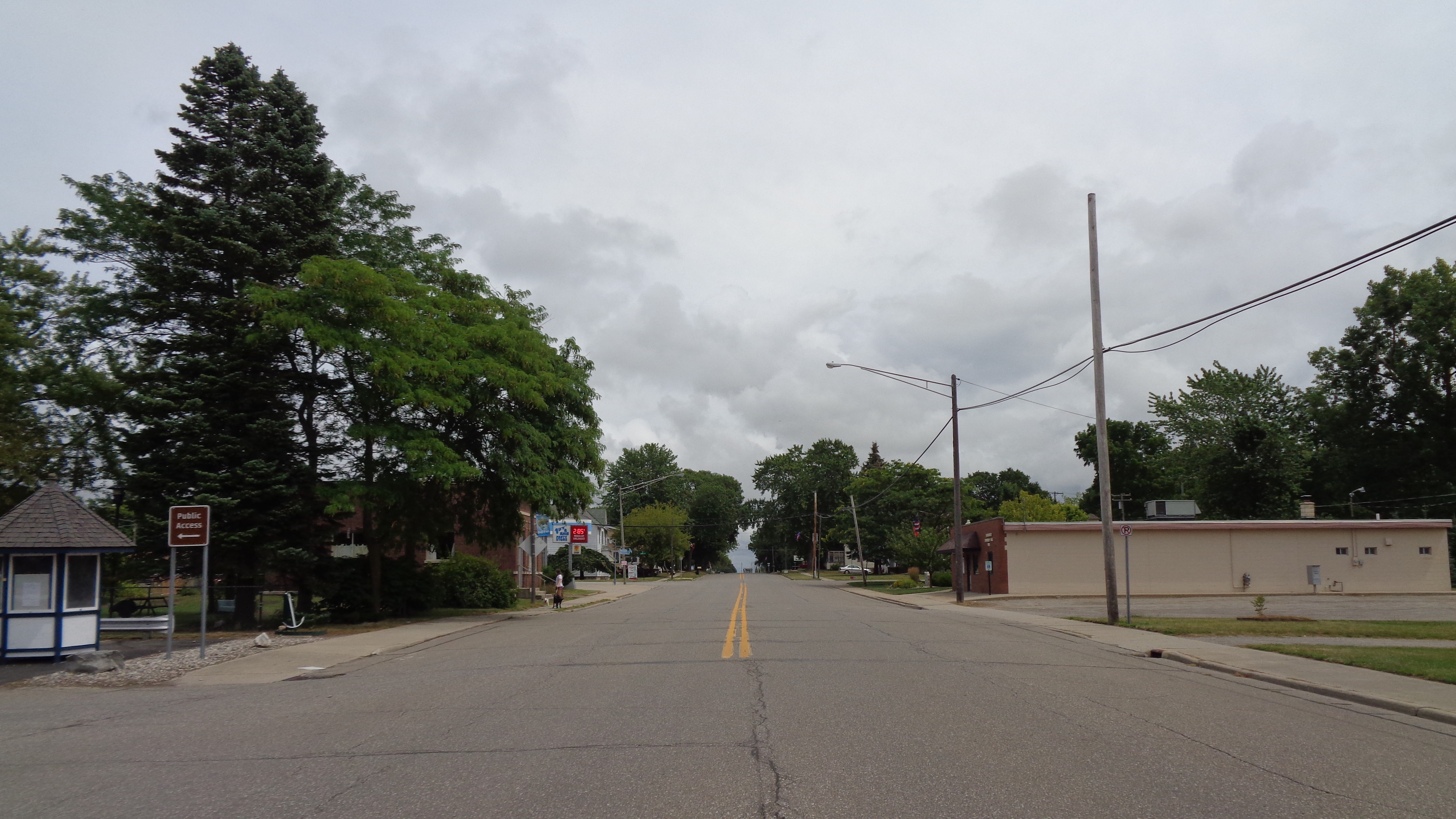 Depicted place: Bay Port